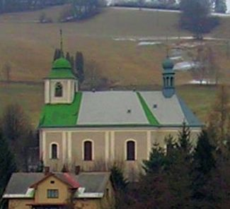 Háje nad Jizerou-Loukov, the Czech Republic. Church of Saint Stanislaus.